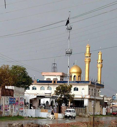 A beautiful of Shia Muslims in Pakistan. Tomb and top of the towers covers are made by gold. Local people visit here everyday.